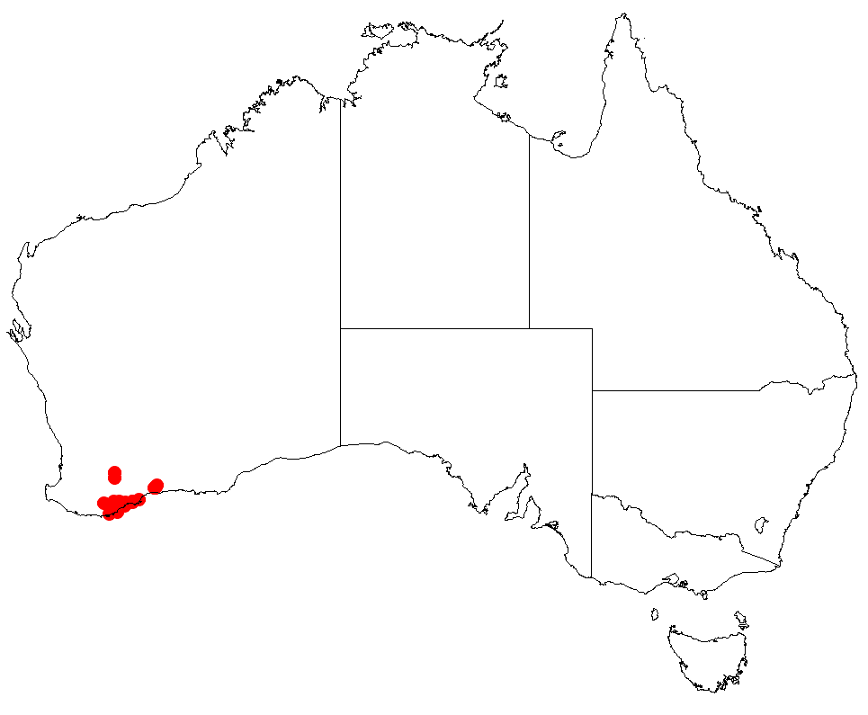 Acrotriche parviflora Occurrence data from Australasian Virtual Herbarium downloaded 23 November 2018 using